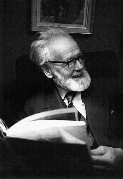 Gunnar Theander, Sedish/Danish painter and glass artist